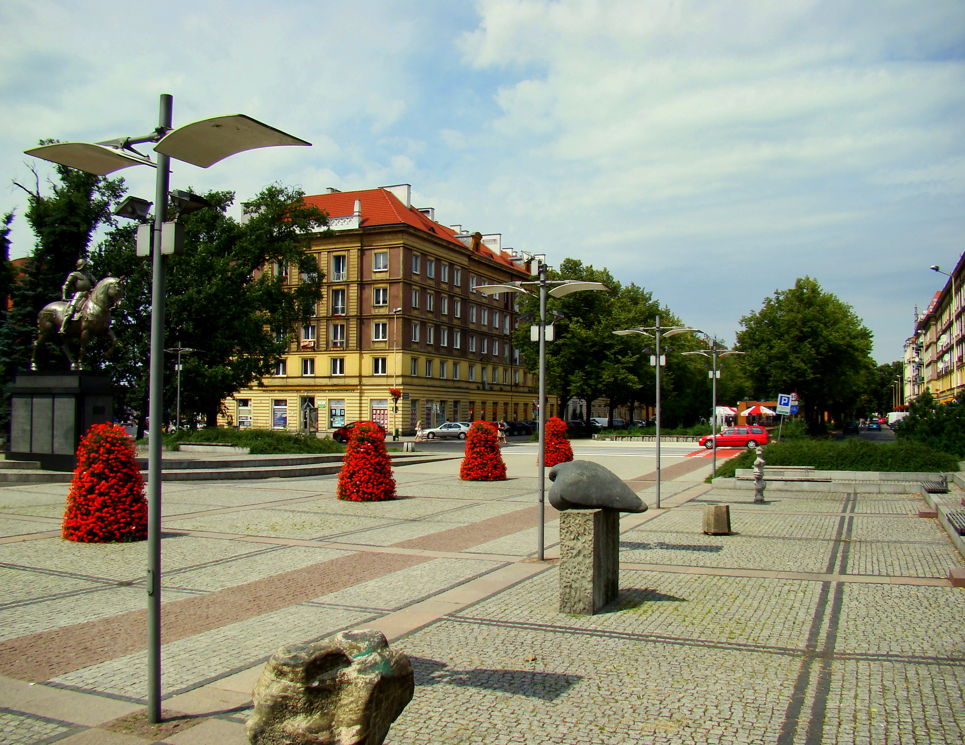 Lotnikow Square (Airmen's Square), Szczecin, Poland